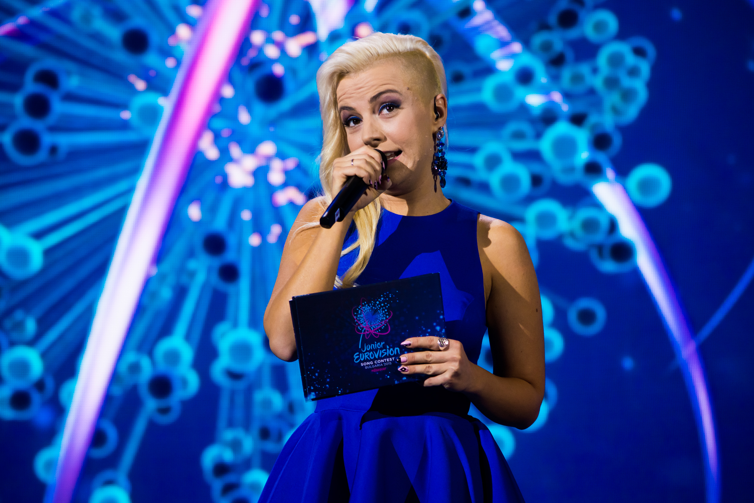 Poli Genova, host of JESC 2015